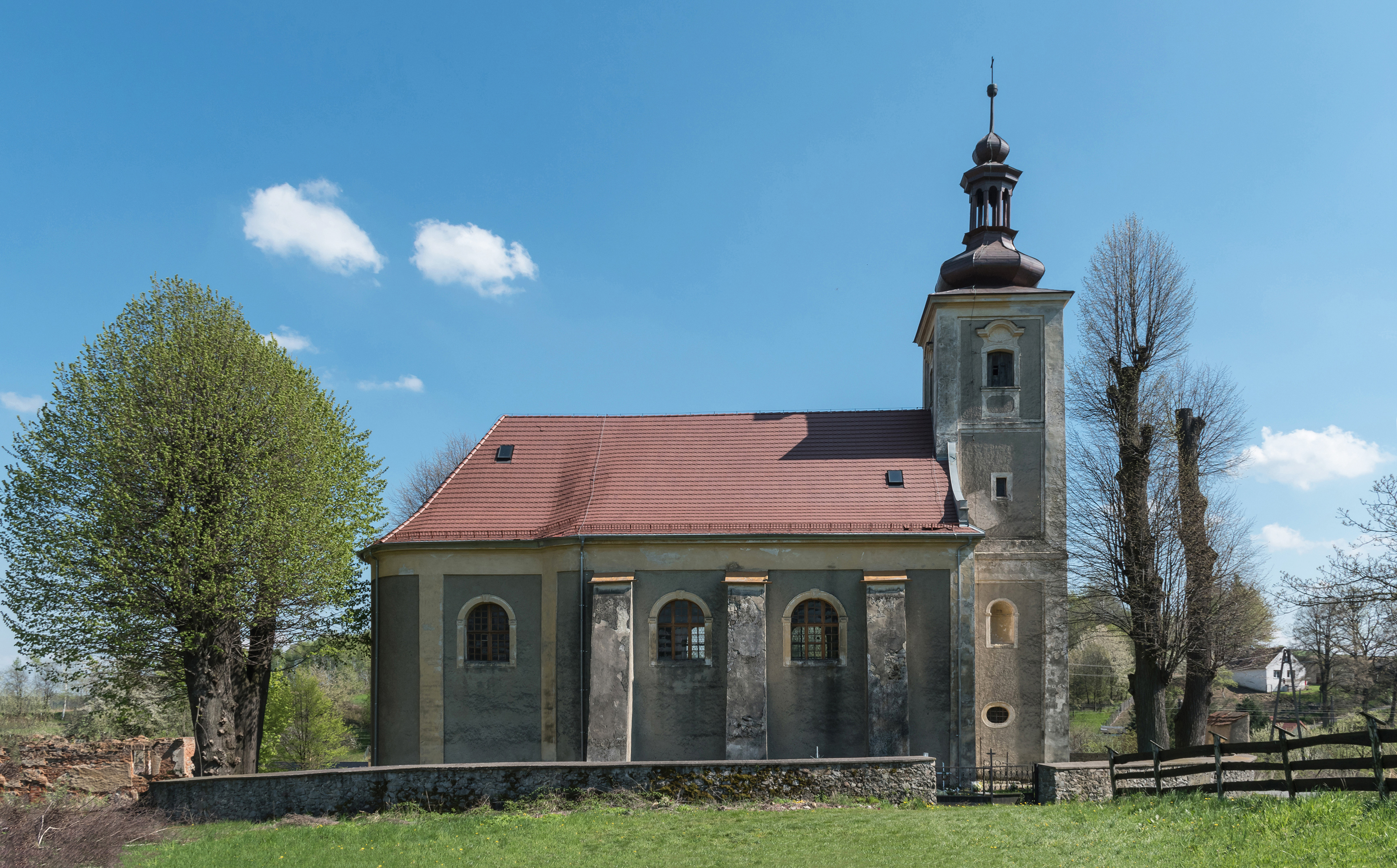 Saint Nicholas church in Laskówka